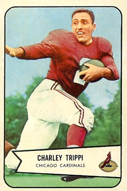 National Football League player Charley Trippi of the Chicago Cardinals displayed on a 1954 Bowman football trading card